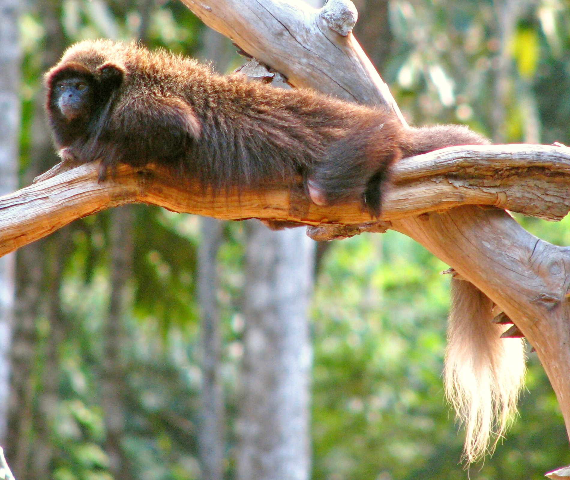 Black-fronted Titi (Callicebus nigrifrons) in Brazil.